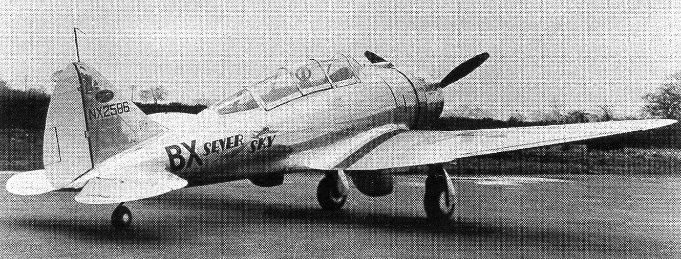 Seversky 2PA/200 NX2586 being tested at Martlesham Heath, March 1939.